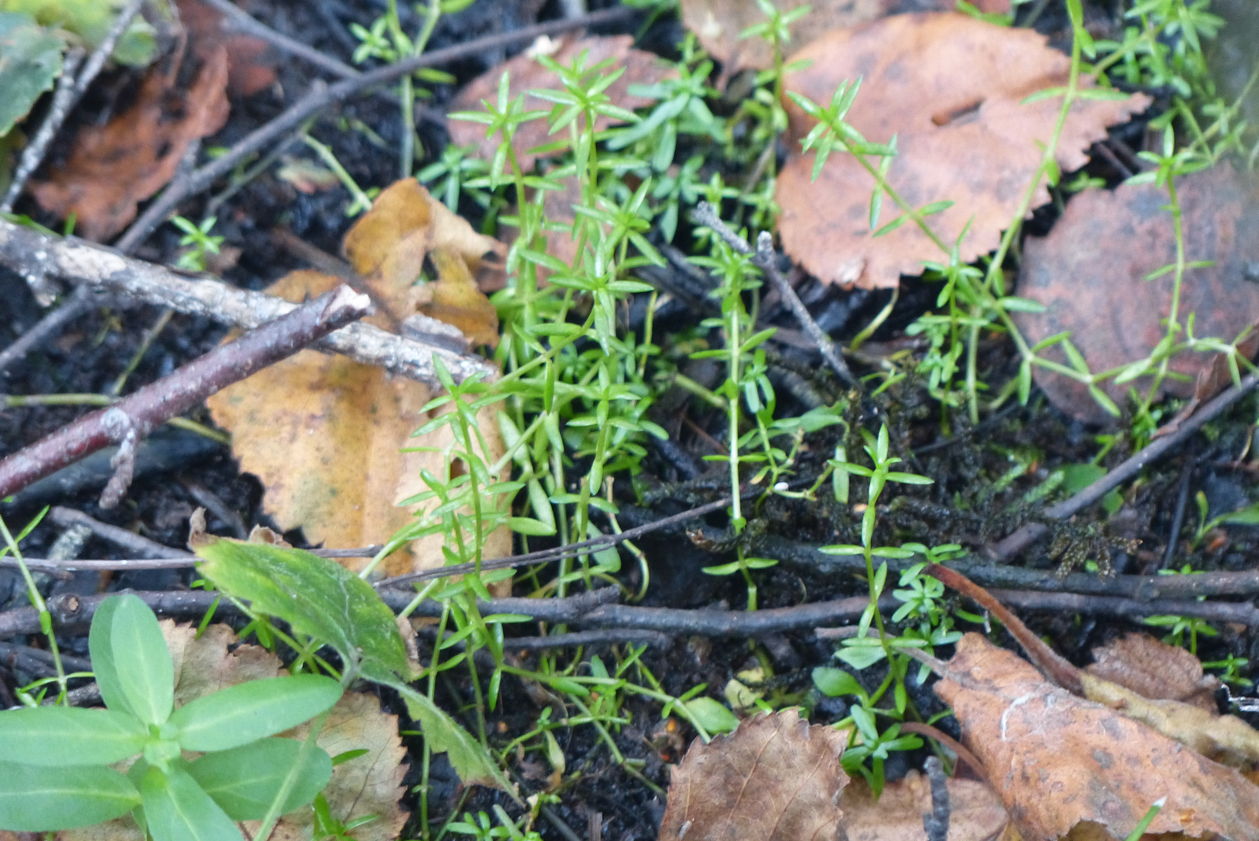 Crassula helmsii